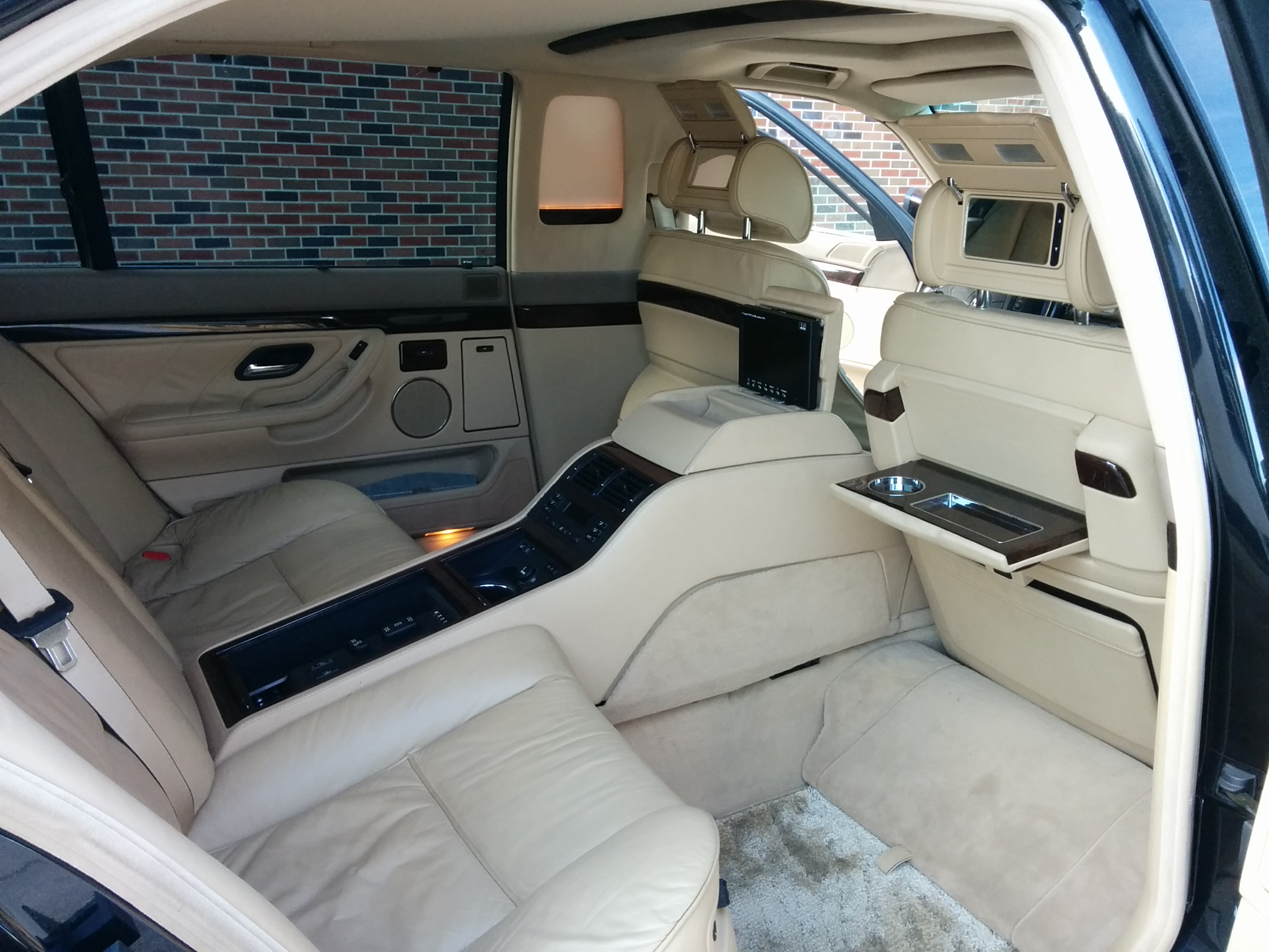 backseat interior of a 1997 BMW E38 L7, September 2014